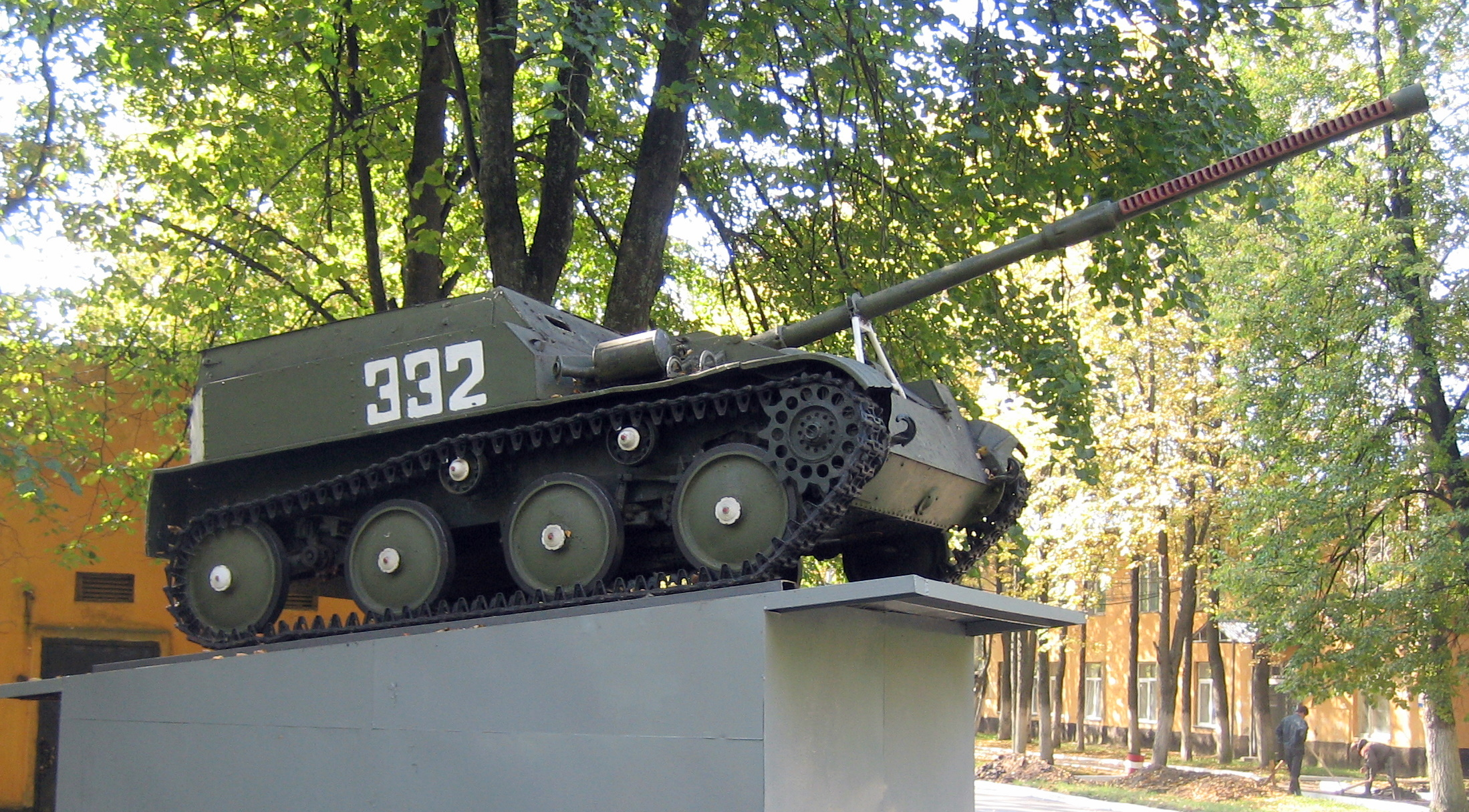 ASU-57, displayed in Kubinka Tank Museum. Photo taken on September 23, 2006. Source: Photo by me, User:Сайга20К.